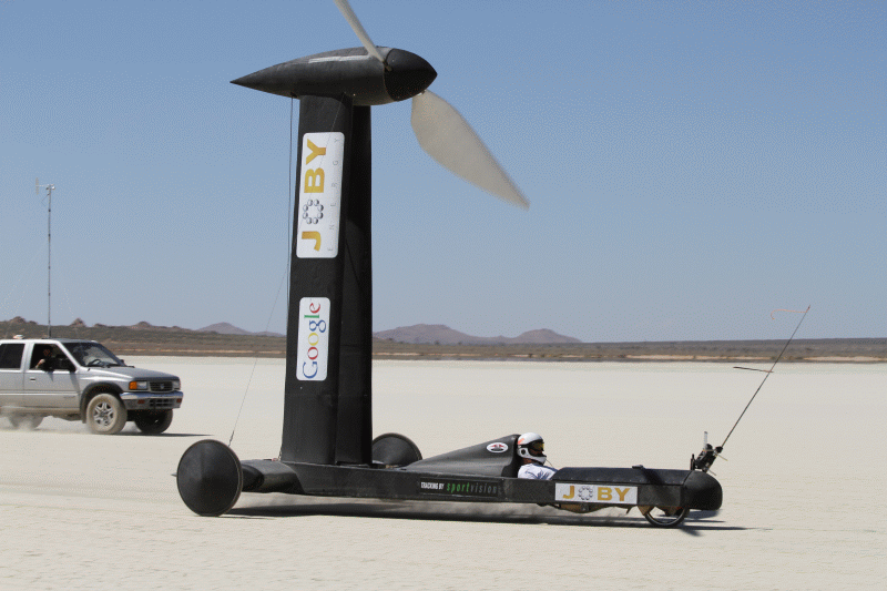 Photograph of the land yacht Blackbird